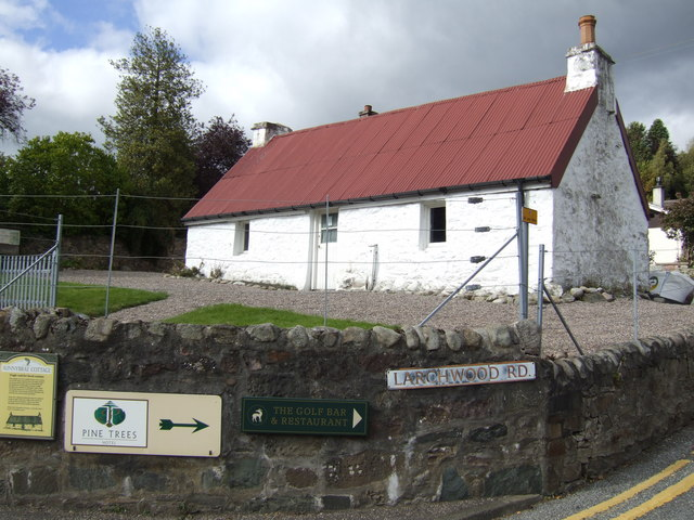 Sunnybrae Cottage. On the corner of Atholl Road and Larchwood Road, see 658431.